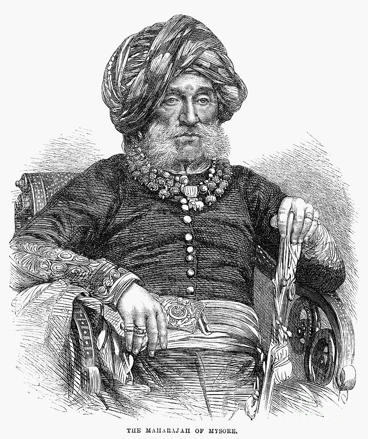 Krishnaraja Wadiyar III, "The Maharajah of Mysore," from the Illustrated London News, 1867